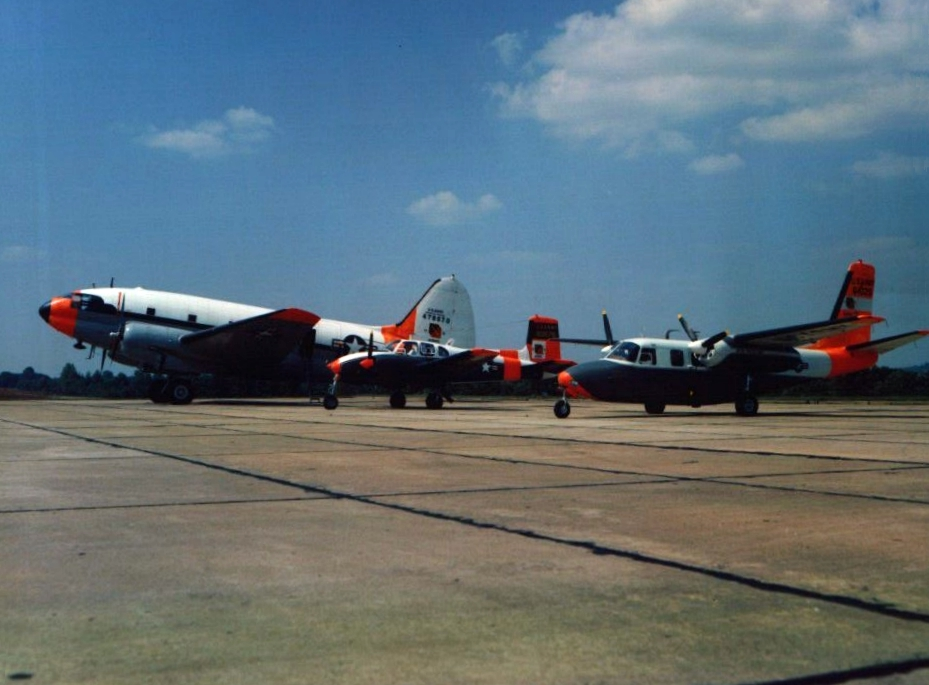 Three U.S. Army aircraft on the flight line of the Redstone Army Airfield, near Huntsville, Alabama (USA): A Curtiss C-46 Commando, a Beechcraft L-23 Seminole, and an Aero Commander L-26.